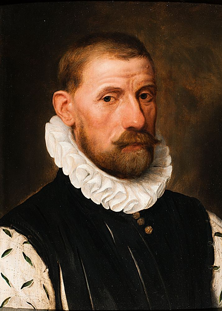 Portrait of Lamoraal, Count of Egmont